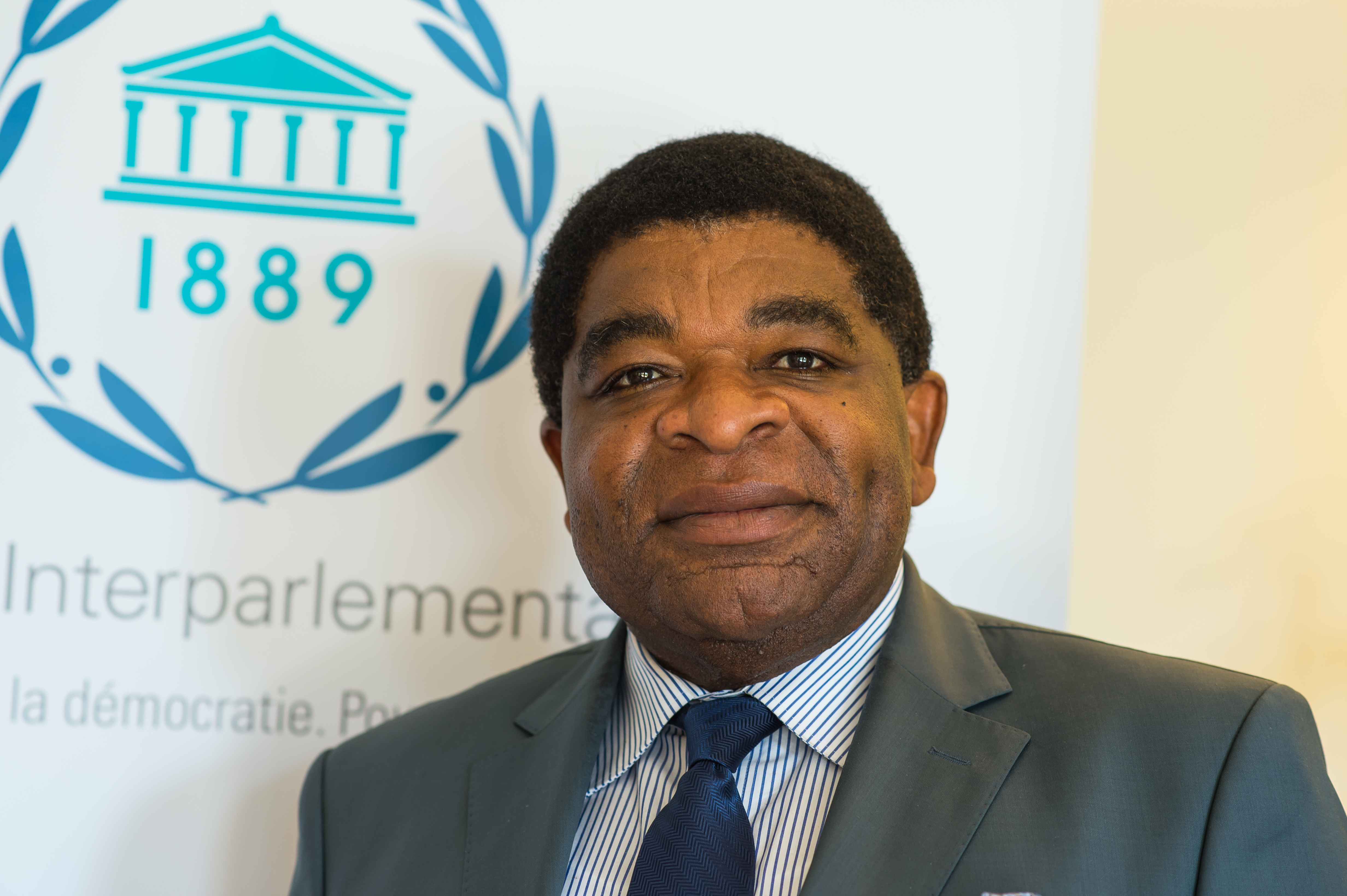 Martin Chungong is the Secretary General of the Inter-Parliamentary Union.